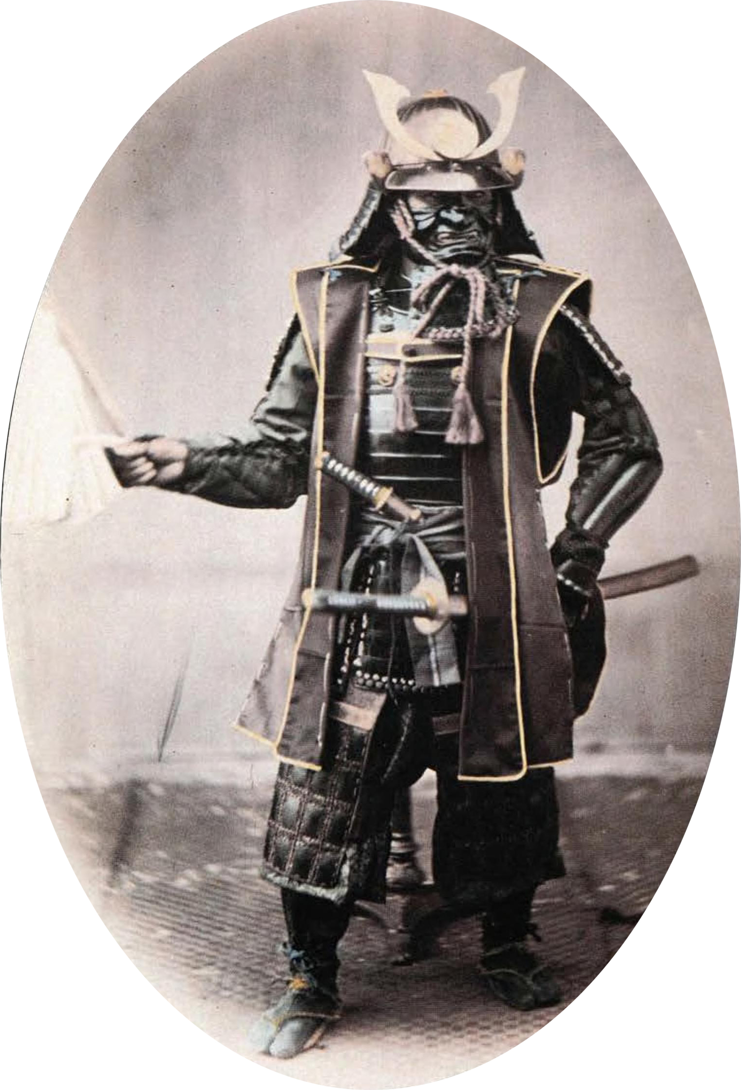 Samurai in complete armour